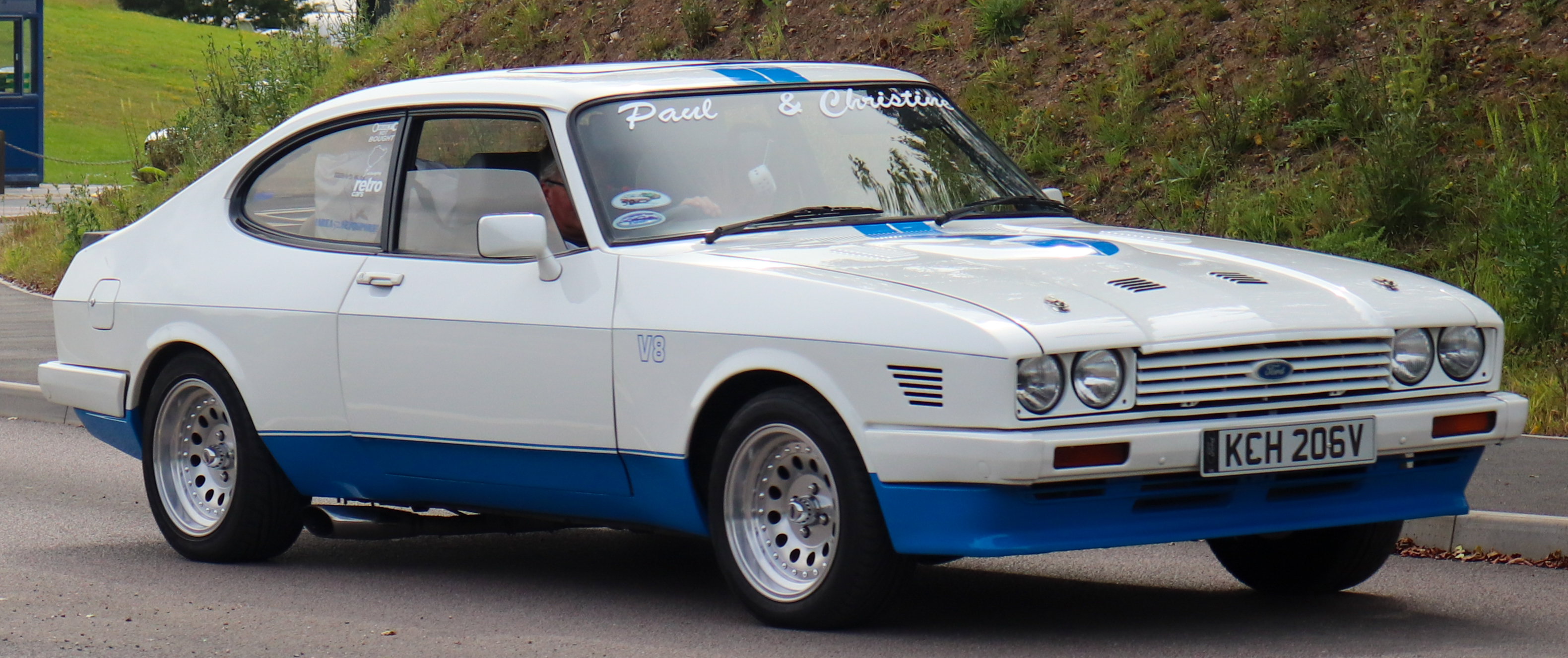 1980 Ford Capri V8 3.5 Taken at the British Motor Museum Old Ford Rally 2019, Gaydon